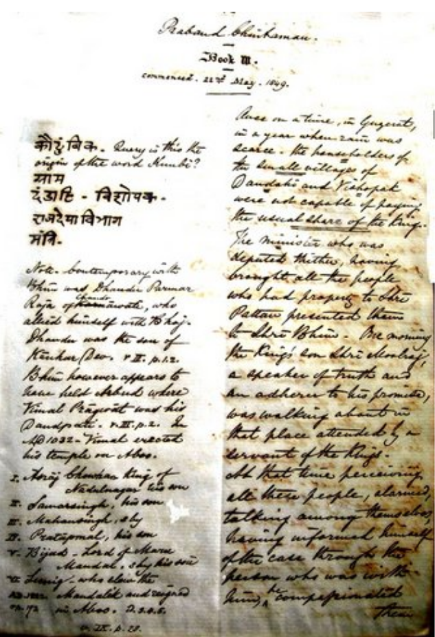 Handwriting of Alexander Kinloch Forbes, a scholar of the Gujarati language and a colonial administrator in British India.